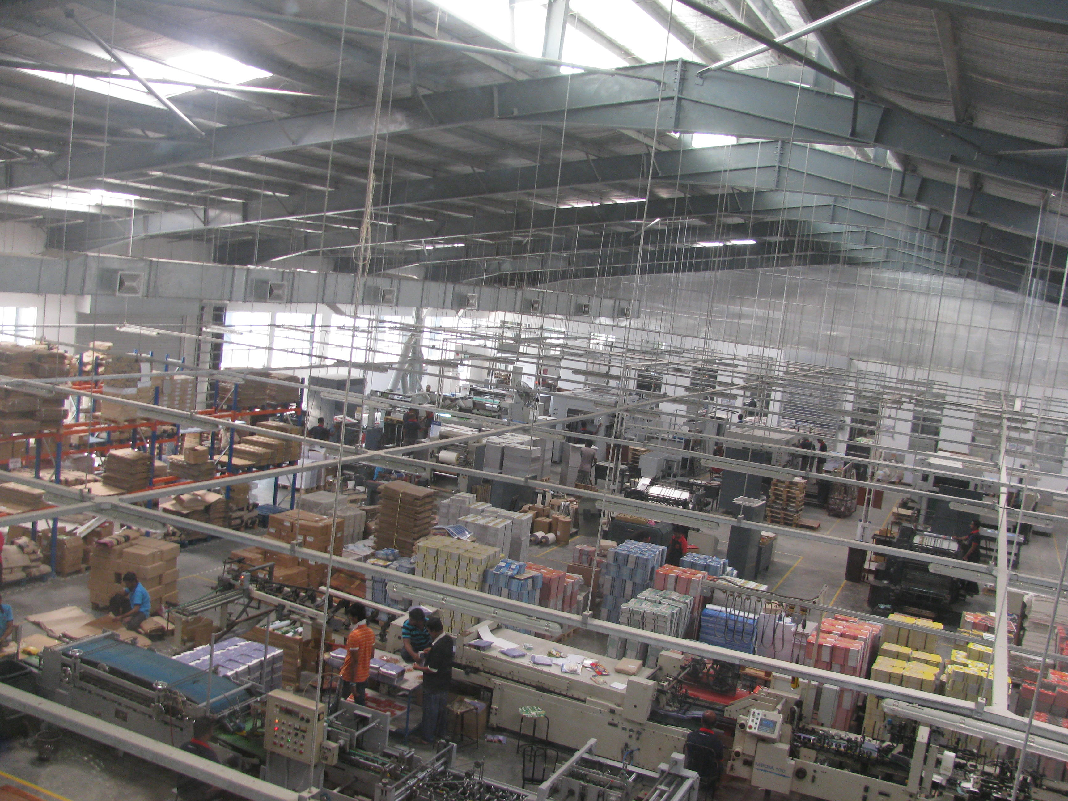 Aitken Spence Green Printing Facility illuminated through natural lighting from the skylights